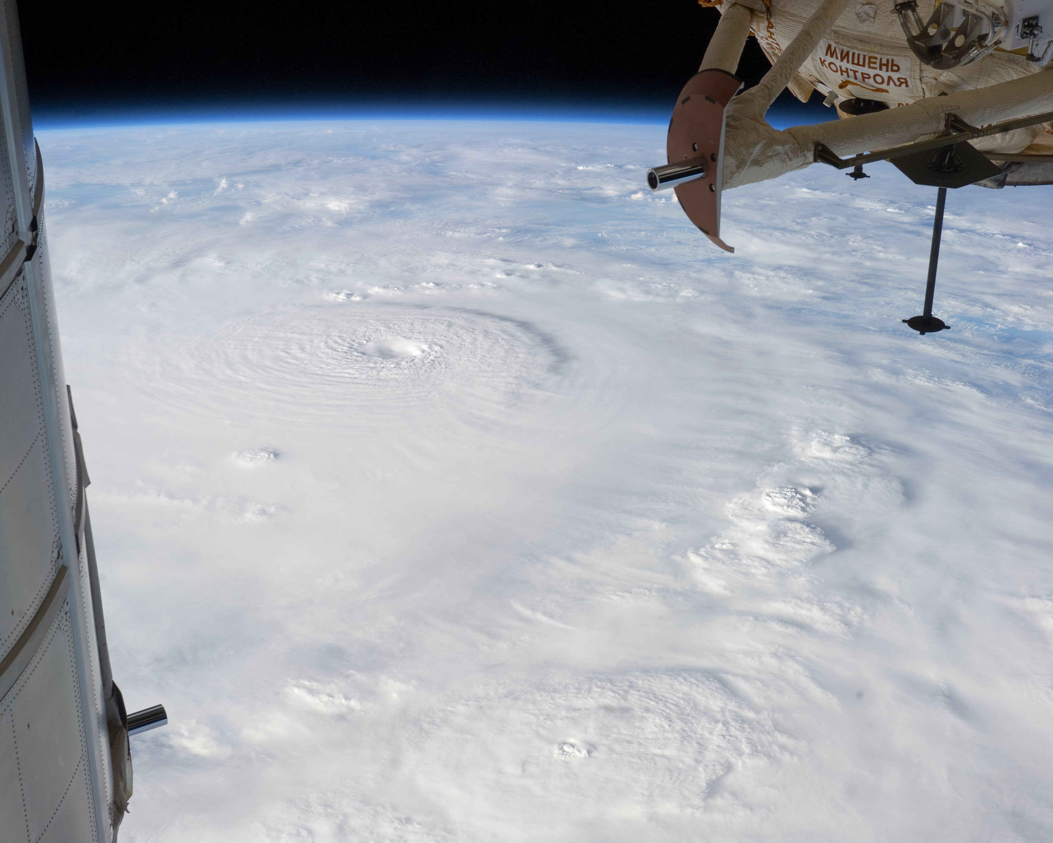 The Crew members of the International Space Station captured this true color image seen from space, Typhoon Bopha, on December 2, 2012, as a category 4 super typhoon. ISS Crew Earth Observations: ISS034-E-005476IdentificationMissionISS034 (Expedition 34)RollEFrame005476Country or Geographic NamePACIFIC OCEANFeaturesPAN-SUPER TYPHOON BOPHA, EYE FEATURE, ISSCenter Point Latitude6.0° NCenter Point Longitude137.5° ECameraCamera TiltHigh ObliqueCamera Focal Length56 mmCameraNikon D3SFilm4256 x 2832 pixel CMOS sensor, 36.0mm x 23.9mm, total pixels: 12.87 million, Nikon FX format.QualityPercentage of Cloud Cover76-100%Nadir What is Nadir?Date2012-12-01Time21:34:35Nadir Point Latitude7.8° NNadir Point Longitude147.4° ENadir to Photo Center DirectionWestSun Azimuth116°Spacecraft Altitude228 nautical miles (422 km)Sun Elevation Angle19°Original image captionISS034-E-005746 (2 Dec. 2012) --- One of the Expedition 34 crew members aboard the International Space Station captured this still image of Super Typhoon Bopha on Dec. 2, 2012. The storm was bearing down on the Philippines with winds of 135 miles per hour. Meteorologists are predicting that the storm will make landfall on Mindanao in the early morning of Dec. 4 local time, as either a category 4 or 5. Parts of the orbital outpost are seen in the picture -- the Permanent Multipurpose Module on the left, and Mini-Research Module 1 (MRM1) on the right.